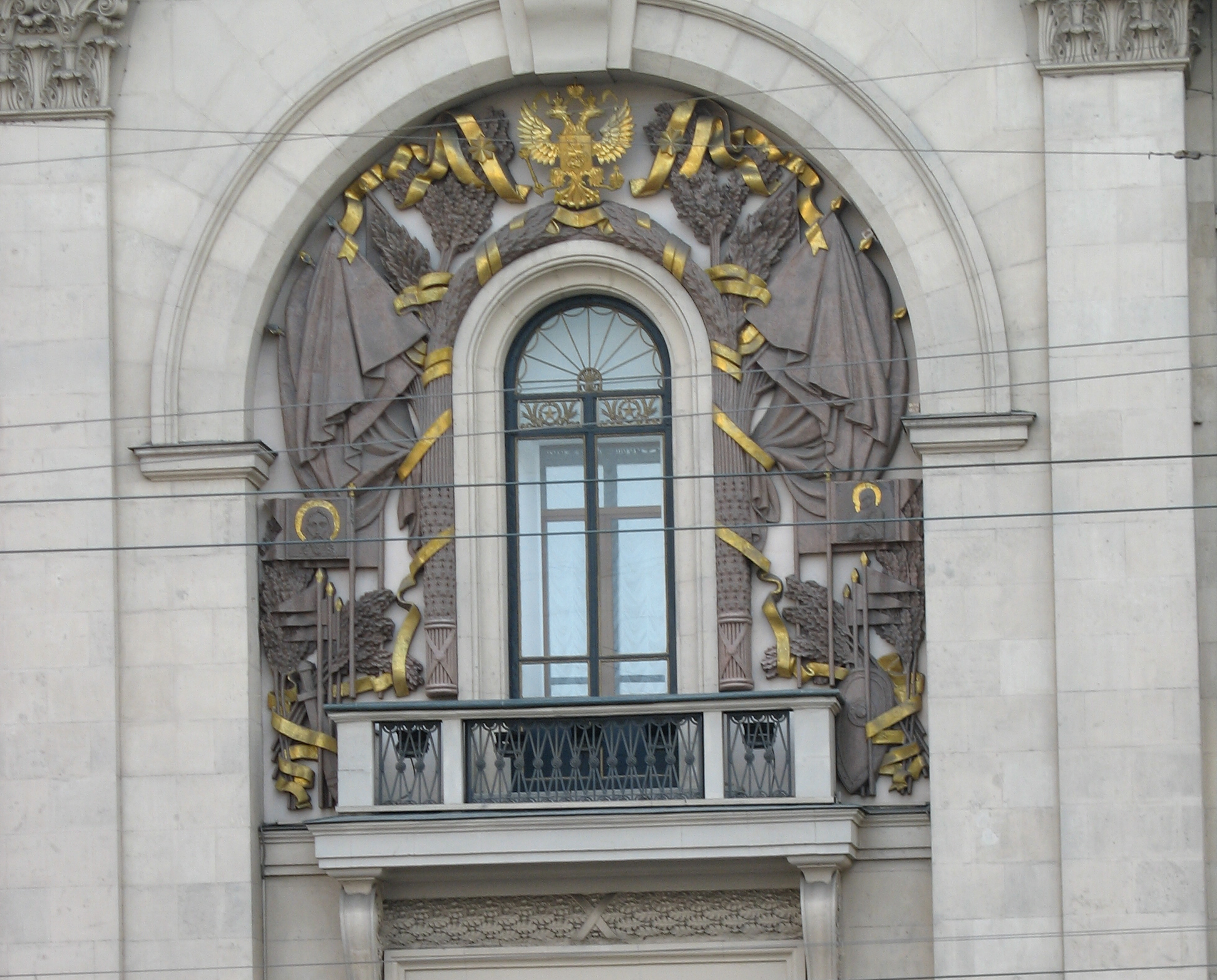 Балкон мэрии Москвы на Тверской - Balcony of residence of the Mayor of Moscow, on Tverskaya Street (1778-82, built up in 1946).